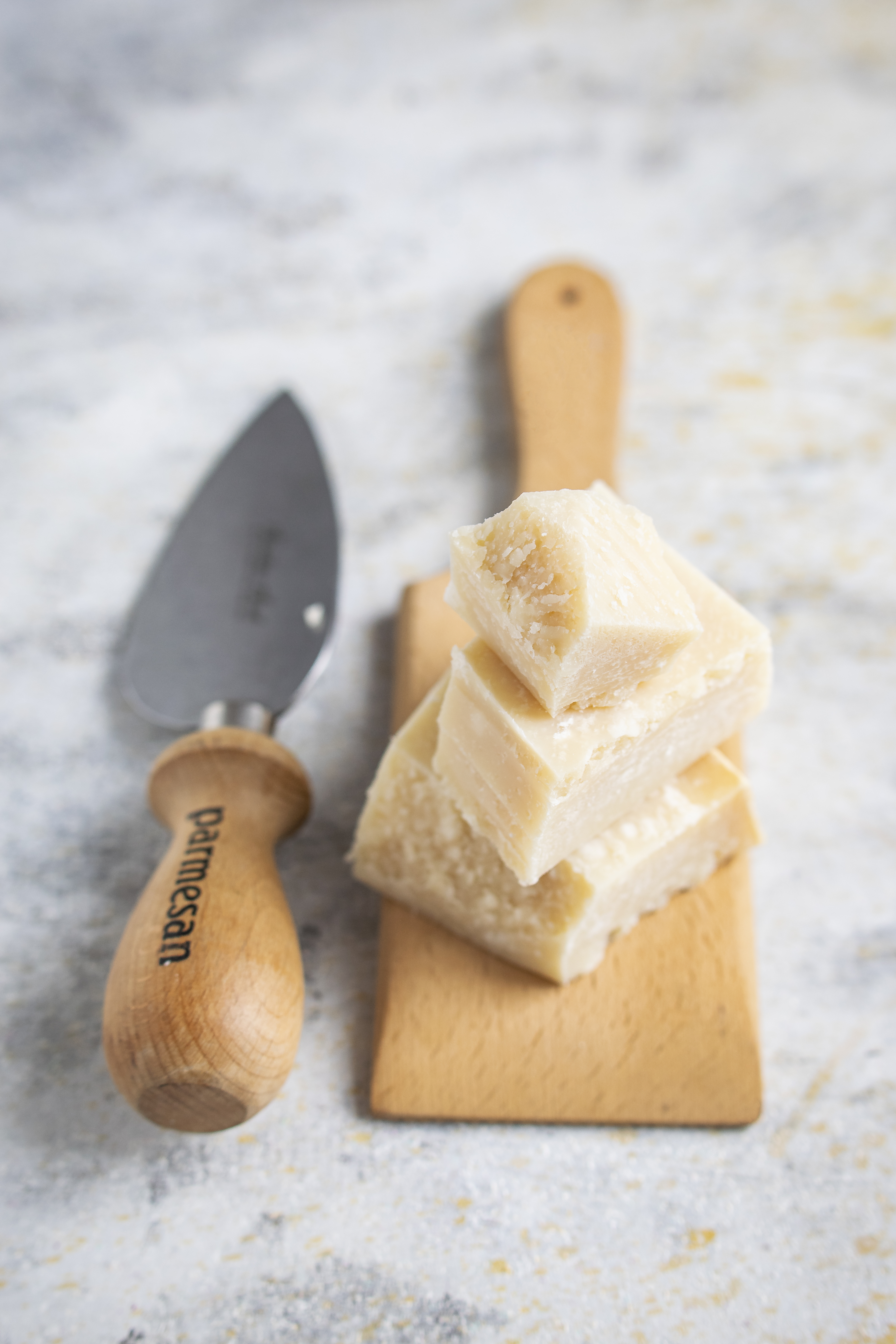 A close up on permesan cheese